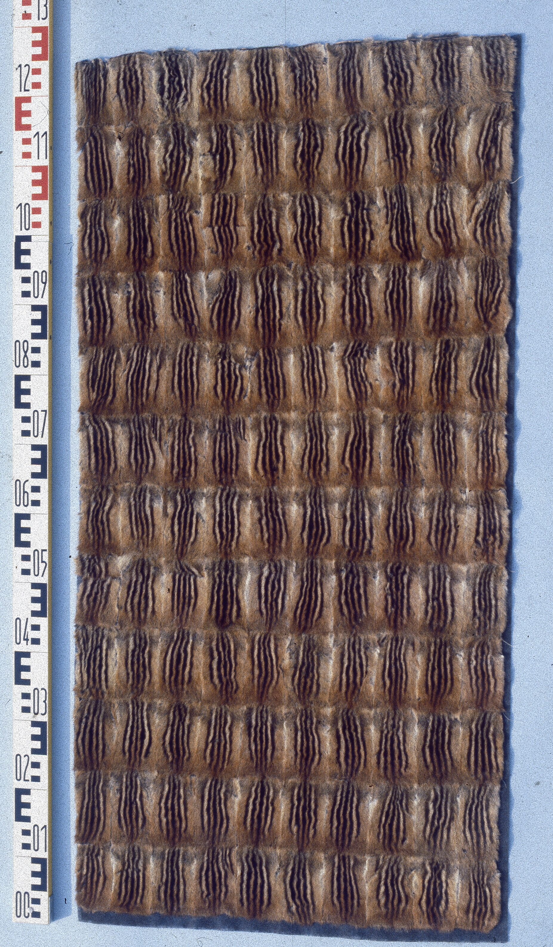 Burunduk (Tamias sibiricus) fur plates. Fur skin collection, Bundes-Pelzfachschule, Frankfurt/Main, Germany